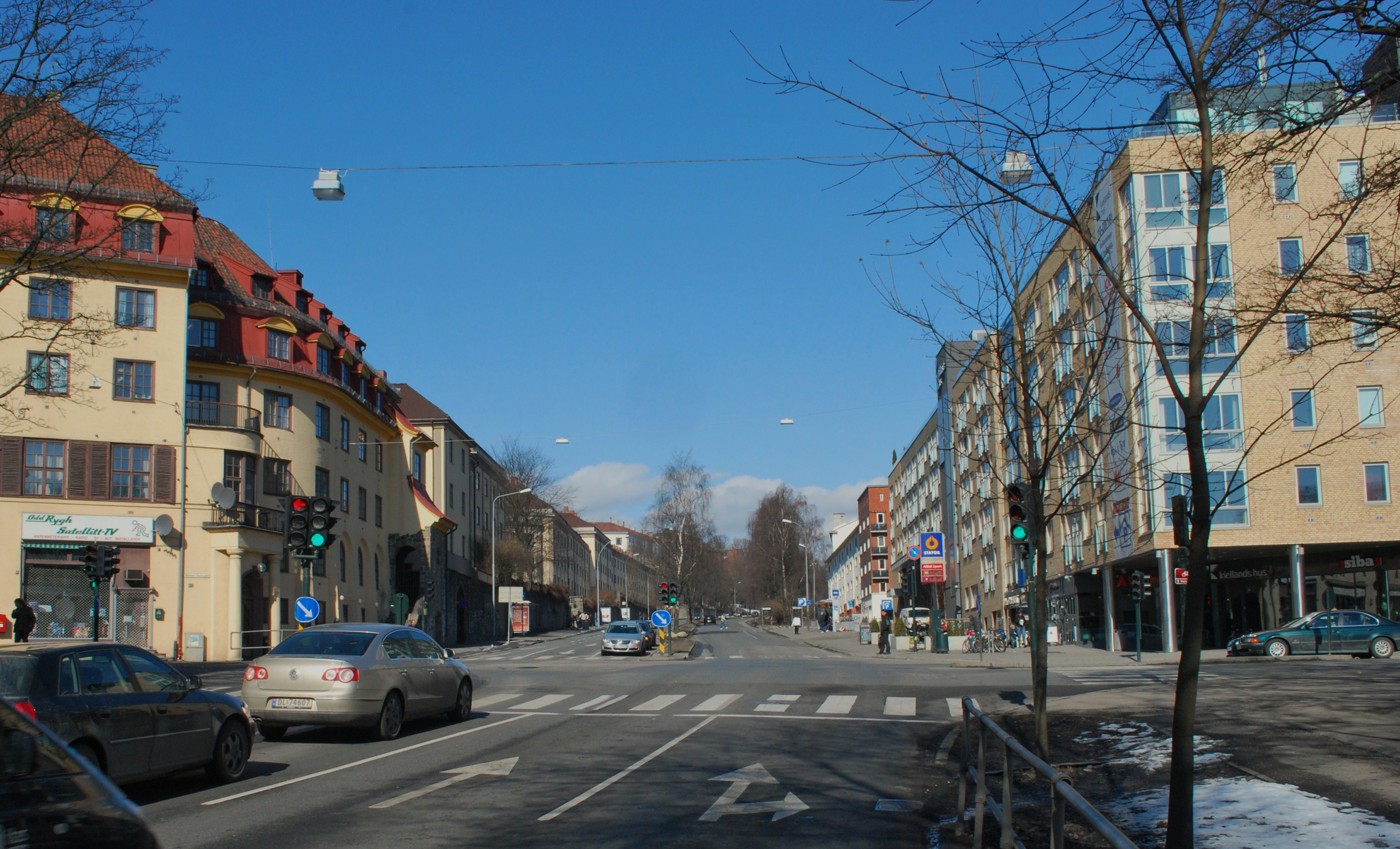 Uelands gate (street), Oslo, seen from Alexander Kiellands plass (square)